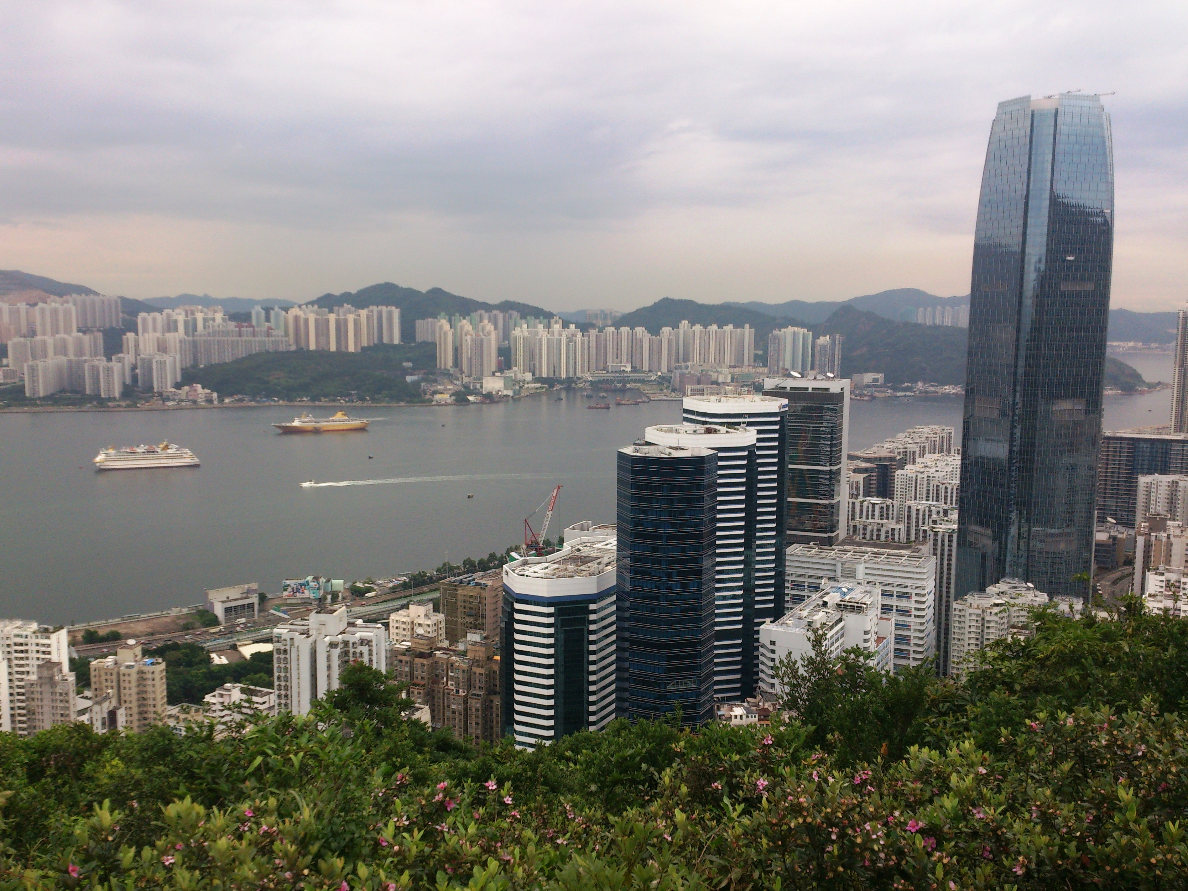 Quarry Bay and Yau Tong